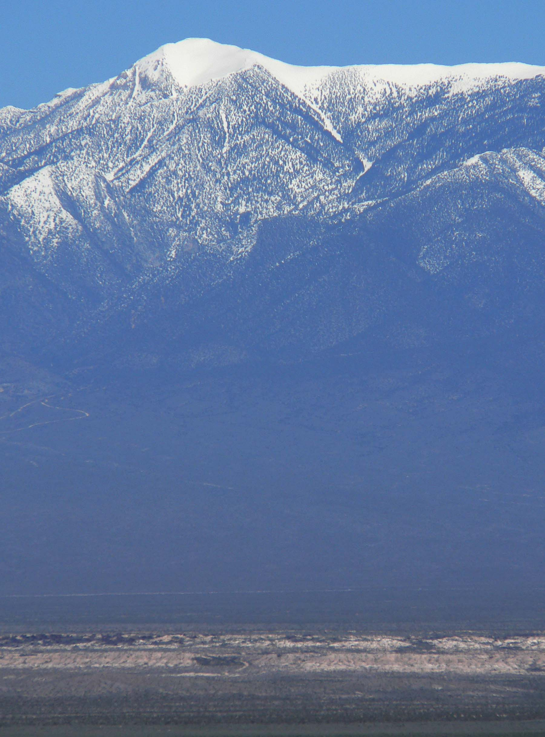 Mount Charleston, Spring Mountains, Nevada, seen from the southwest